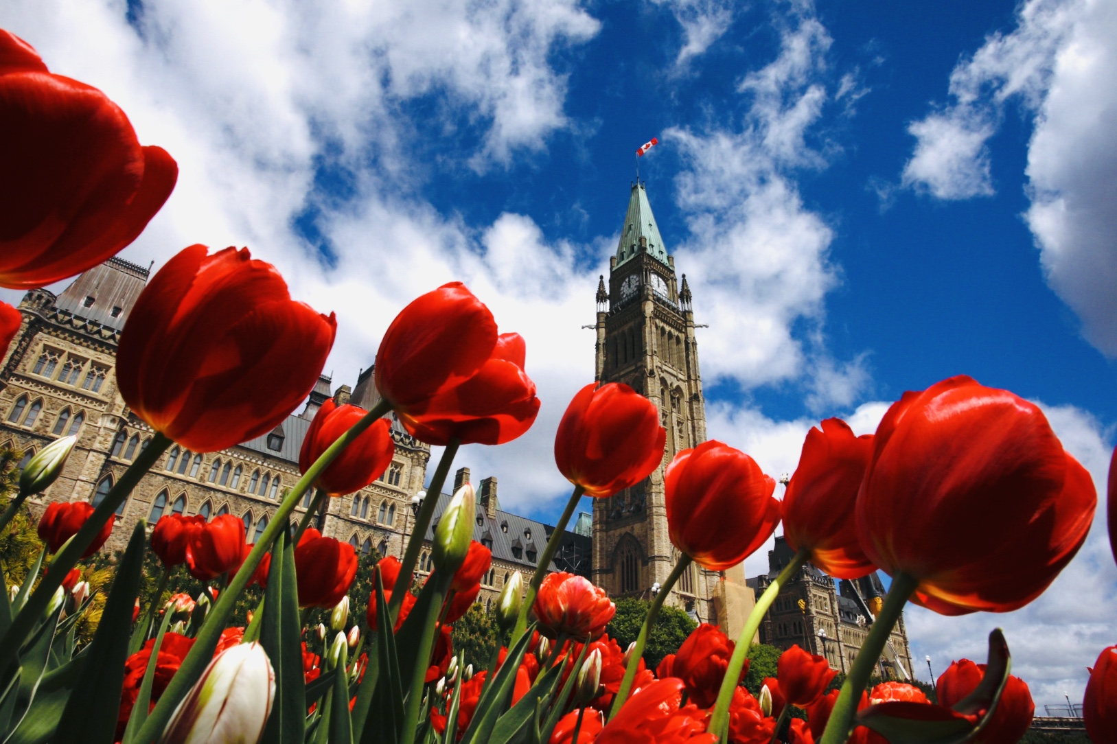 Spring has finally sprung! Tulips are popping up all around Ottawa for the annual Tulip Festival. They're a gift from the Netherlands to thank Canada for providing refuge to their Royal Family and the Canadian Armed Forces for helping to liberate the Dutch people during the Second World War. Every time I see the tulips I'm reminded of the bravery and sacrifice of our men and women in uniform and our continued relationship with the Netherlands.